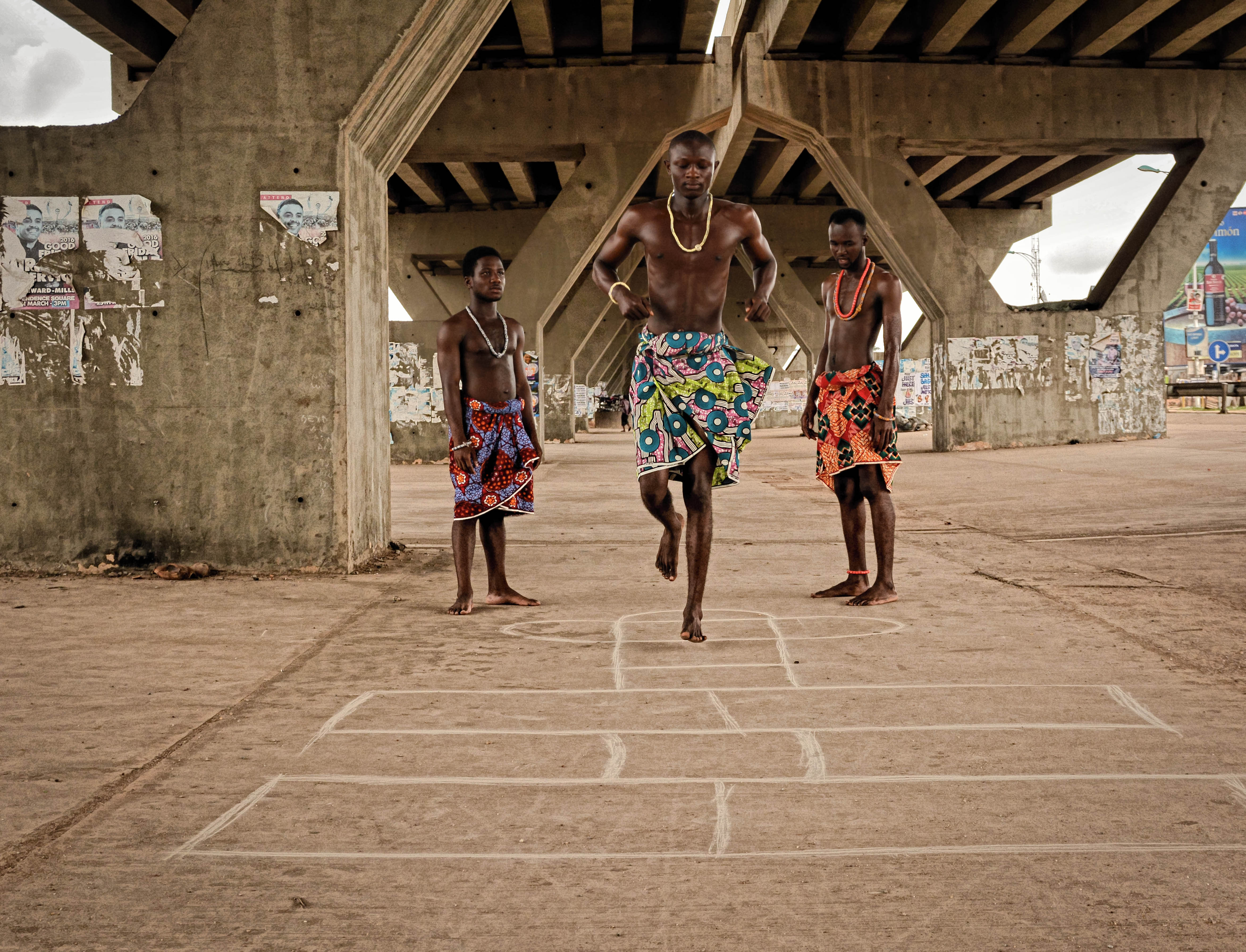 This is a game played by school children and any person in Ghana. This game uses the strategy acquisition of more Rooms or Box. The more box you have the more power you have. Other participants have to jump over your box house into there if you have occupy the boxes before them. This is an image with the theme "Play" from: Ghana